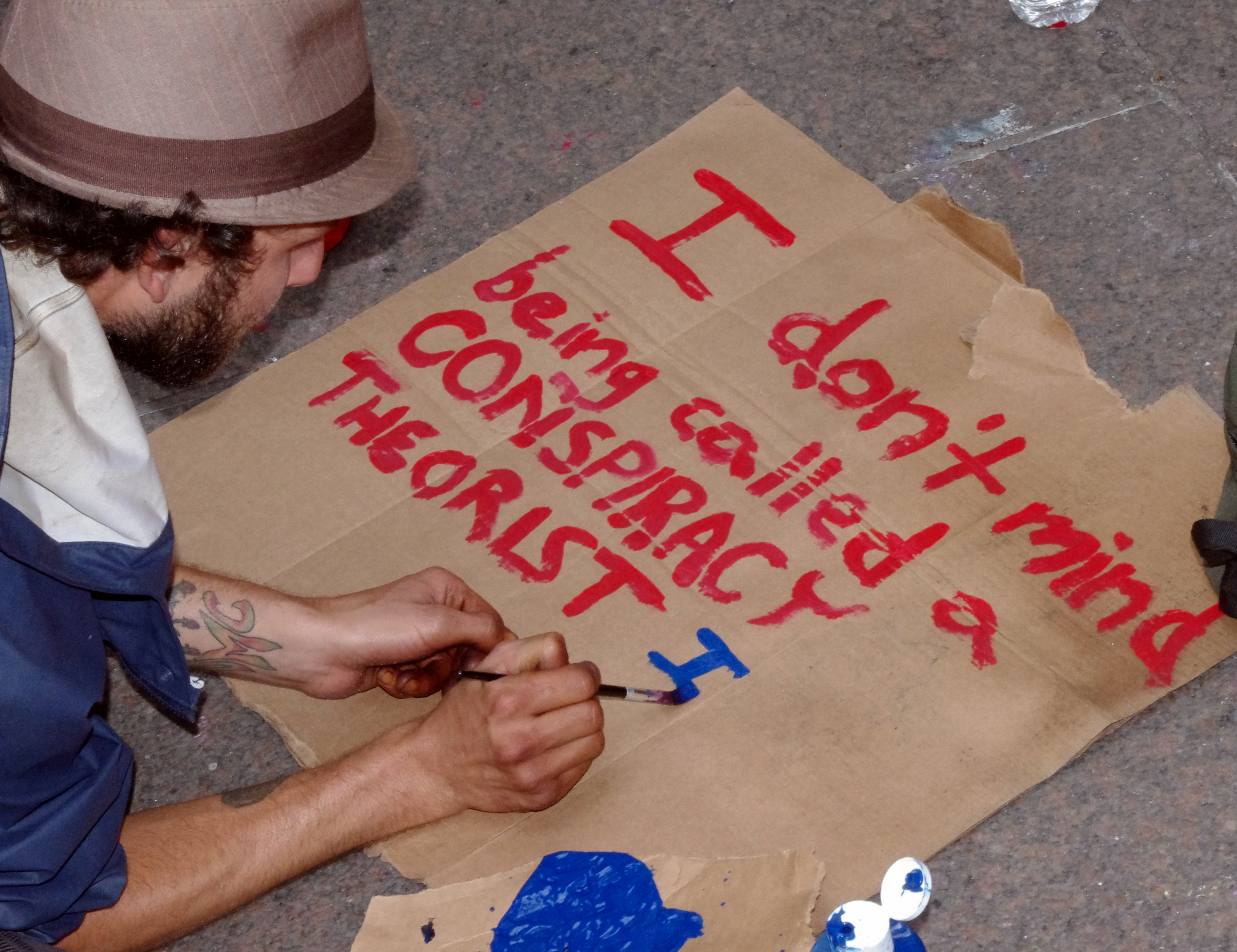 The protest event Occupy Wall Street in Zuccotti Park in New York, on Day 8, September 24. Wall Street has been barricaded off to the public for over a week.